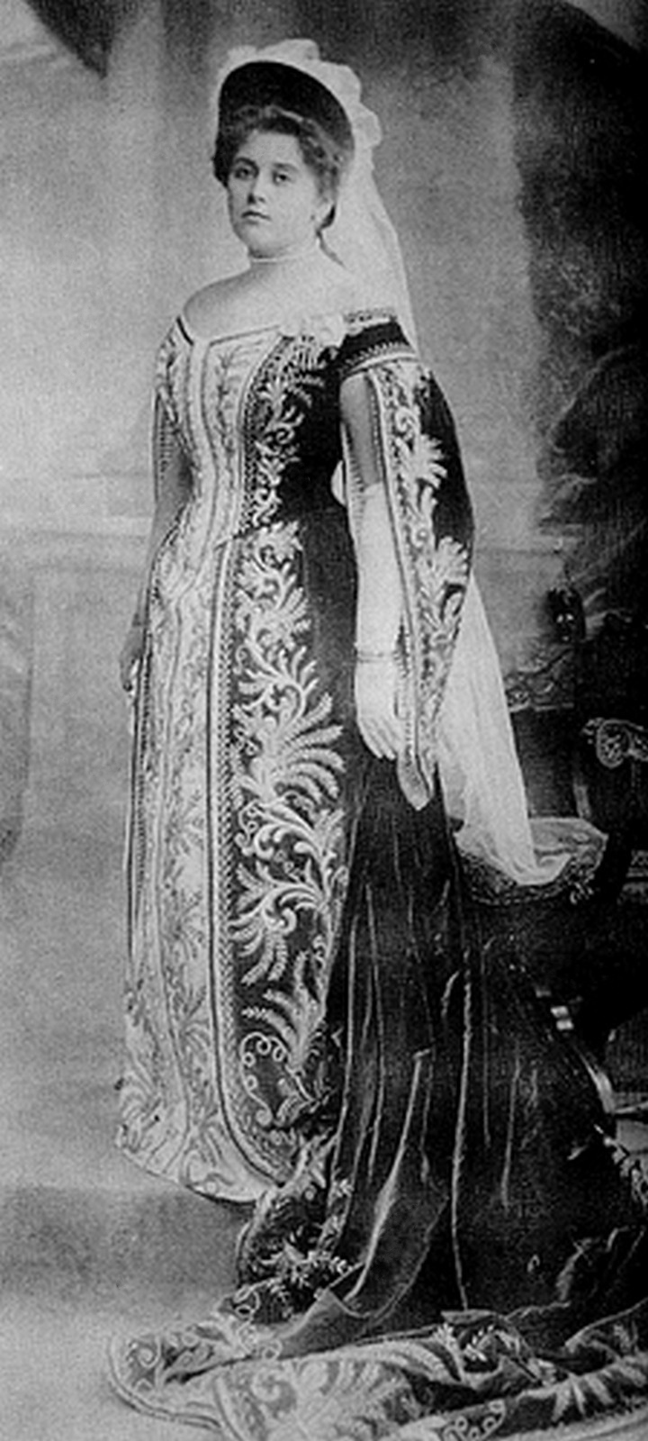 Anna Vyrubova, a photograph taken before 1917.